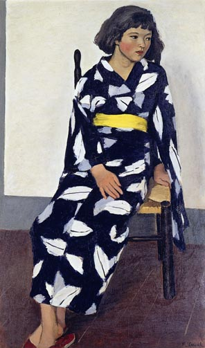 Girl in bath robe